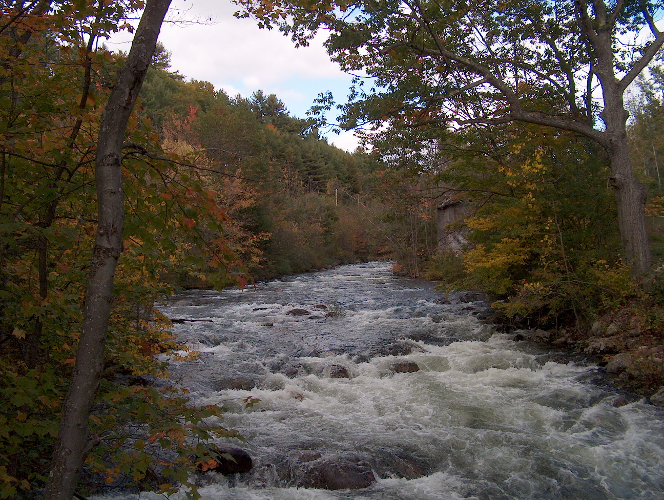 The Newfound River in Bristol, New Hampshire. Photo by Ken Gallager, Oct. 4, 2008.